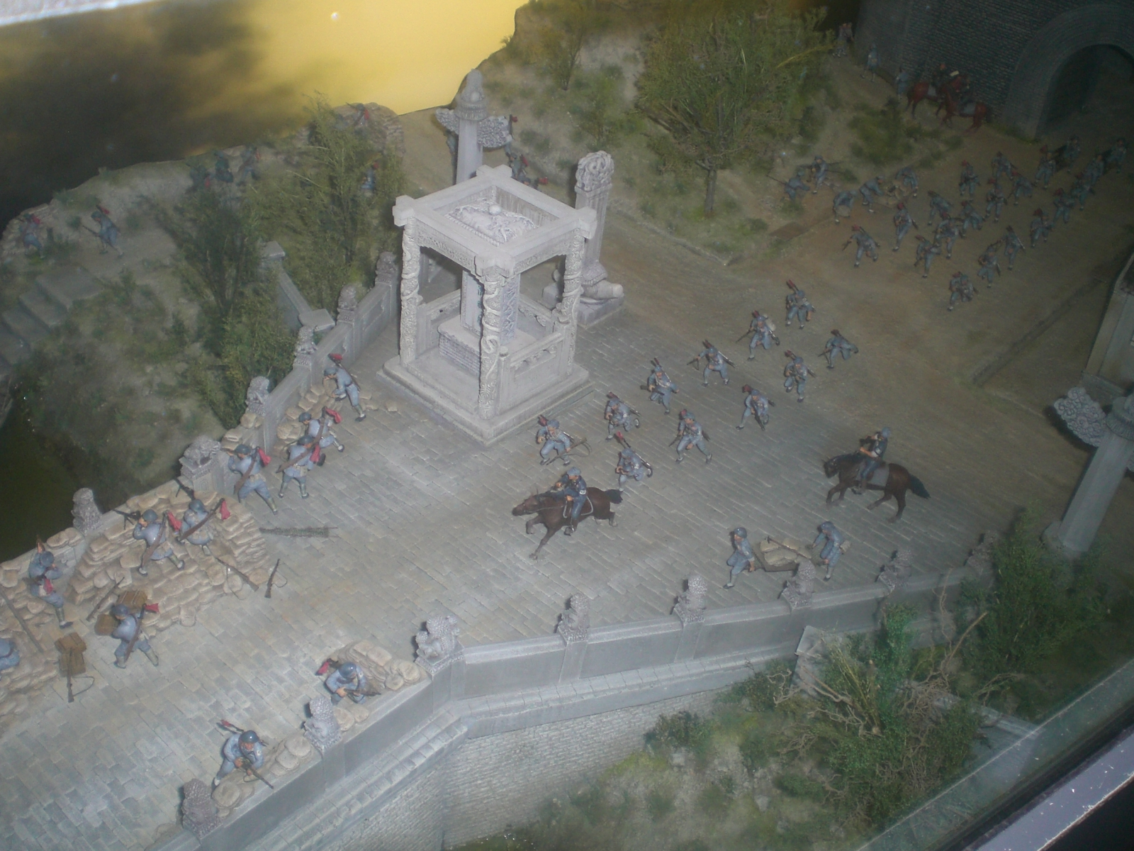 The model (located in the Hong Kong Museum of Coastal Defence) shows the eastern end of the Lugou bridge in Beijing, with the western gate of the Wanping Castle in the right background. One can see two matching huabiao columns on both sides of the roadway. Qianlongs Moon over Lugou stele (in a gazebo), and Kangxi's bridge rebuilding stele (on a bixi tortoise) are on the north side of the roadway.